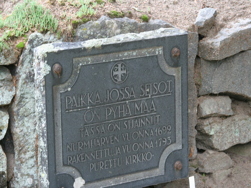 Nurmijärvi previous church, memorial plaque, Nurmijärvi, Finland.